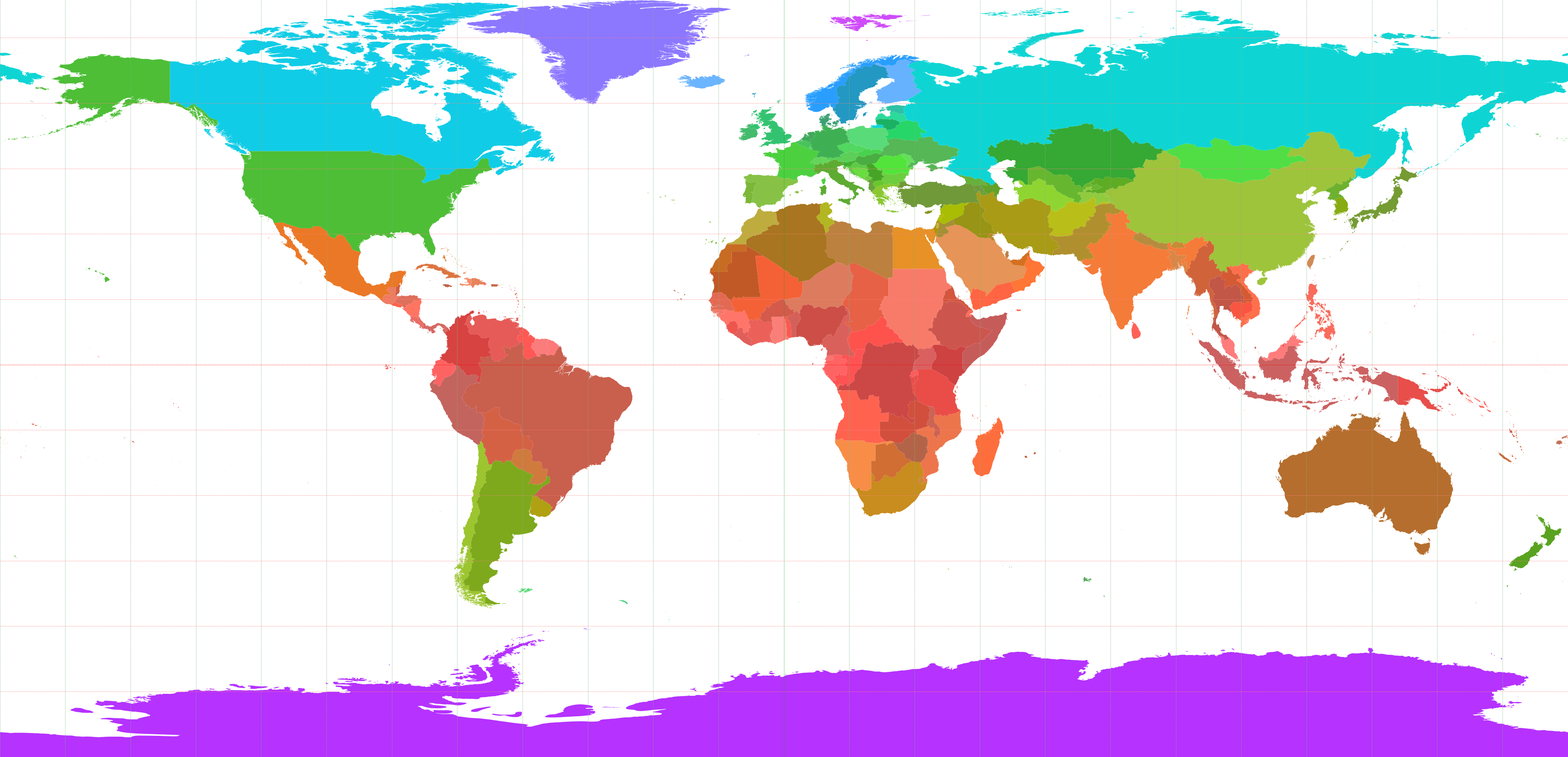 Political map of the World with a square latitude-longitude grid, with colours that vary with latitude.